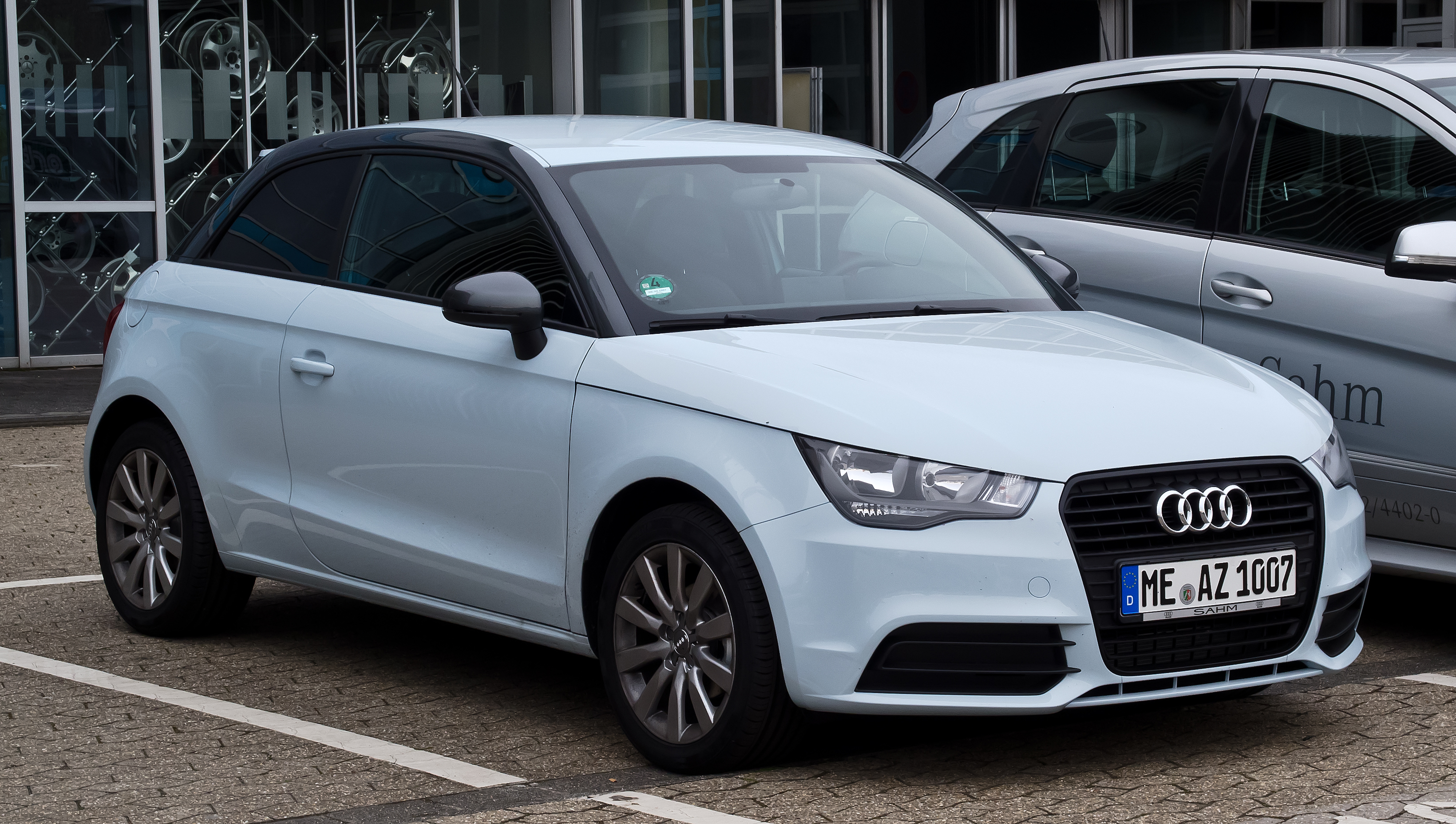 Audi A1 1.2 TFSI Attraction